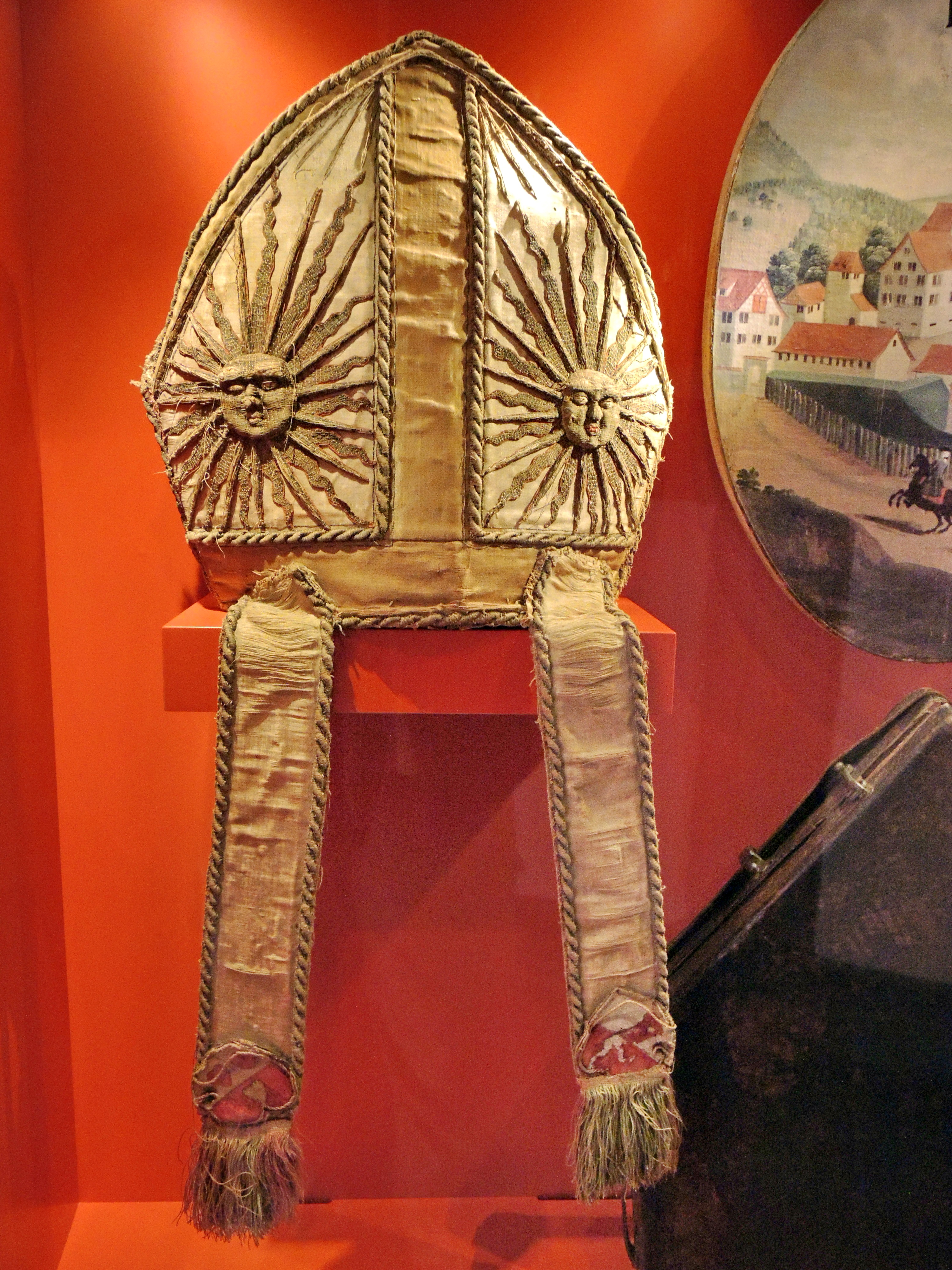 Collection of the Stadtmuseum in Rapperswil : Mitre of the last abbot of the former Rüti Abbey, church treasury of Stadtpfarrkirche St. Johann. '